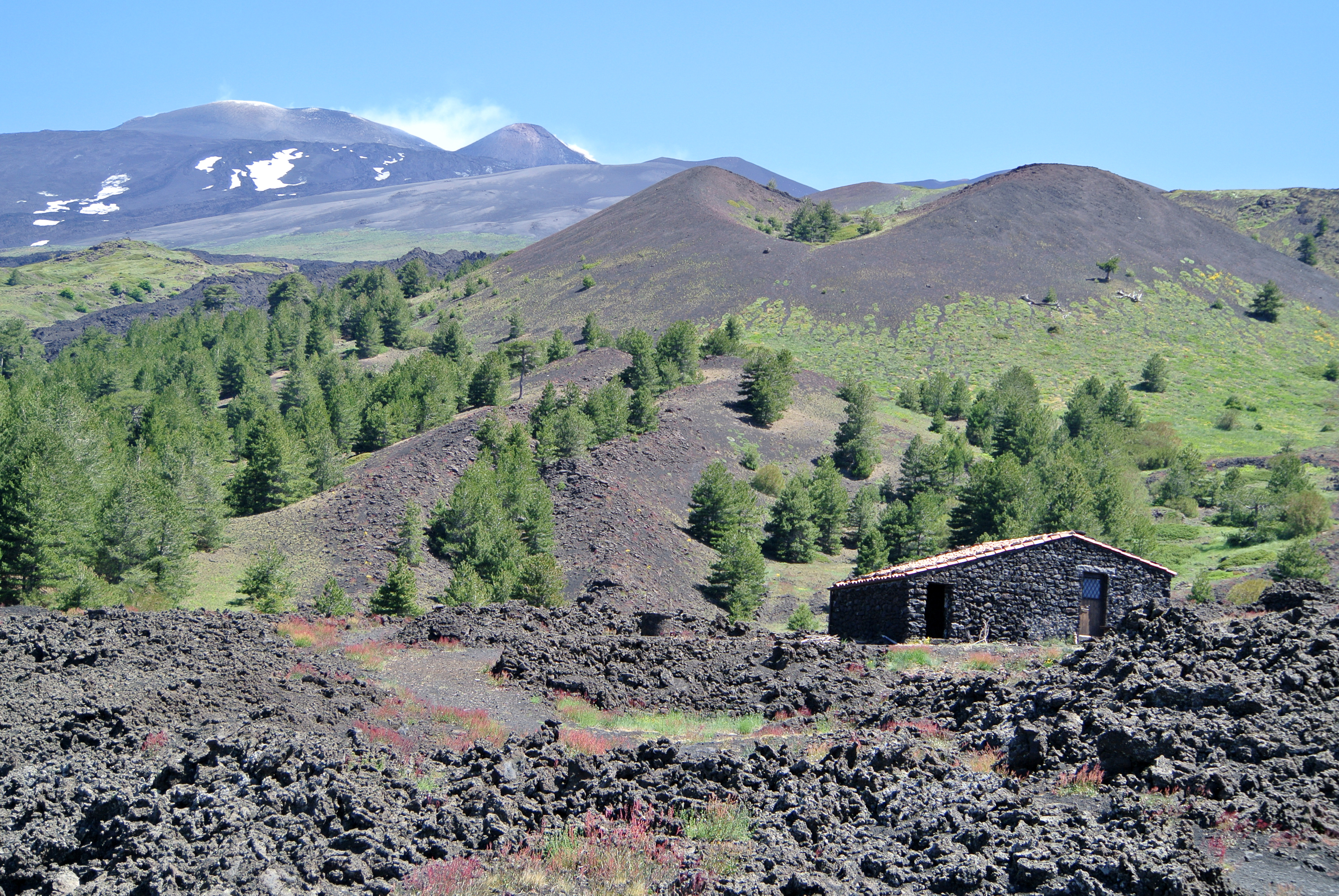 Mount Etna viewed from the south. The smoking peak is in the upper left, a trekker cabin in the lower right.